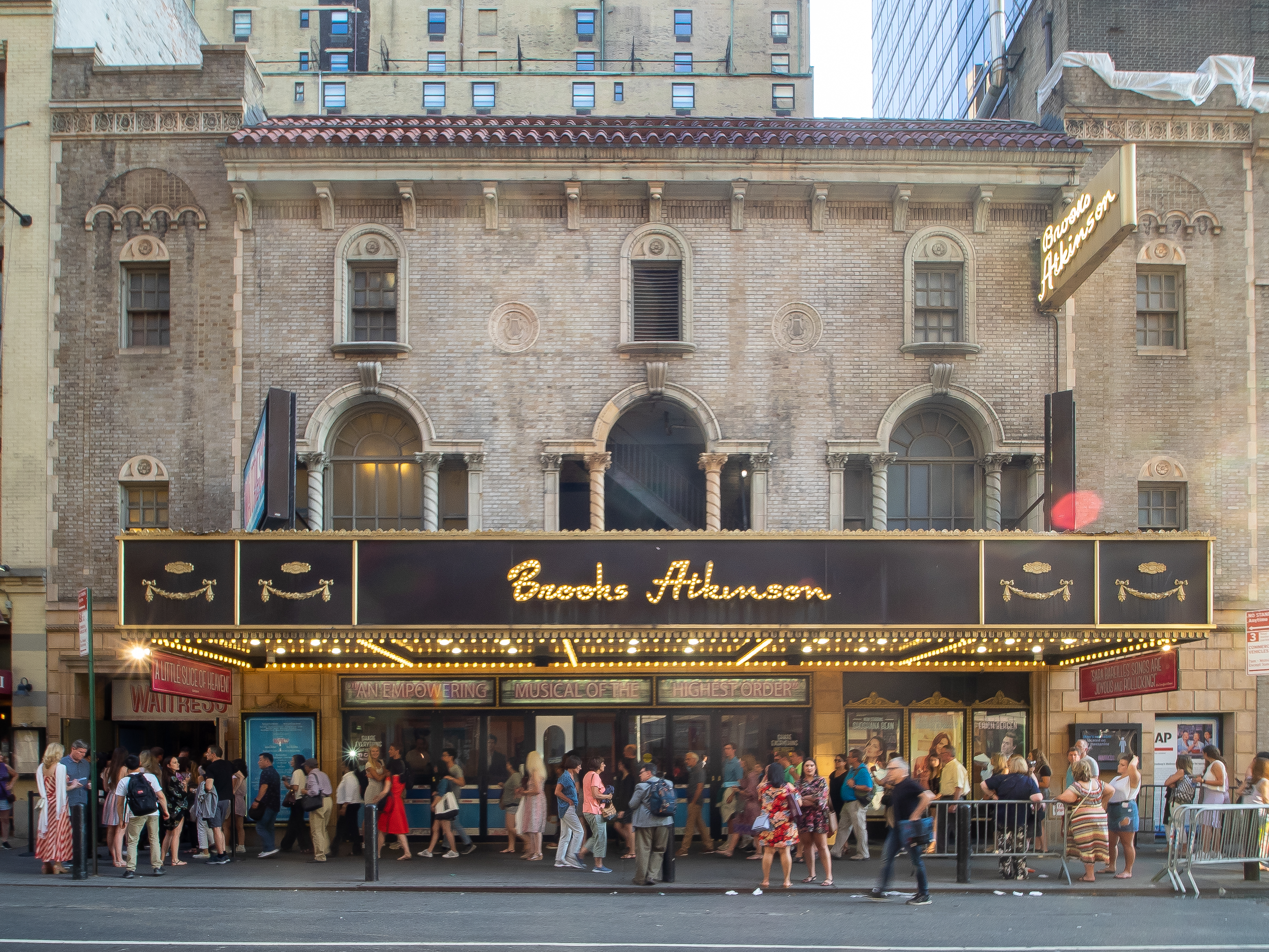 Theater District, Midtown Manhattan, NYC